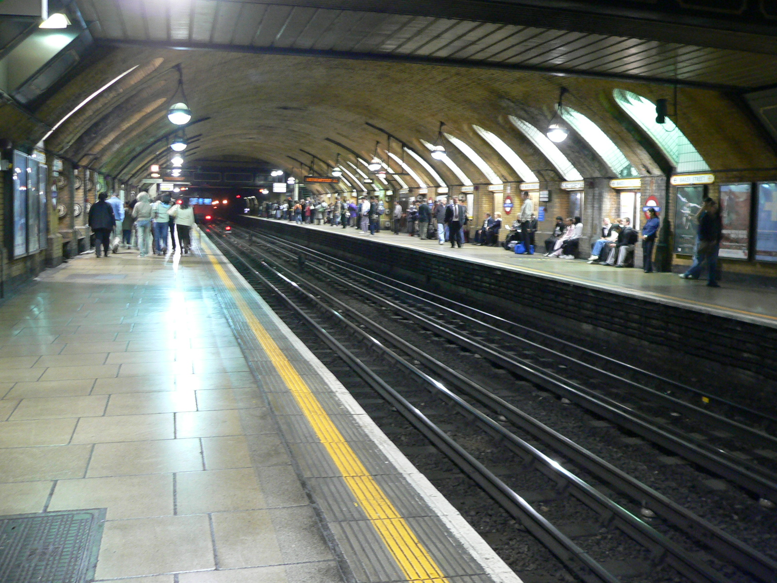 The Circle and Hammersmith and City Line platforms at Baker Street tube station. Photographed from the western end of the westbound platform on 24 October 2005.